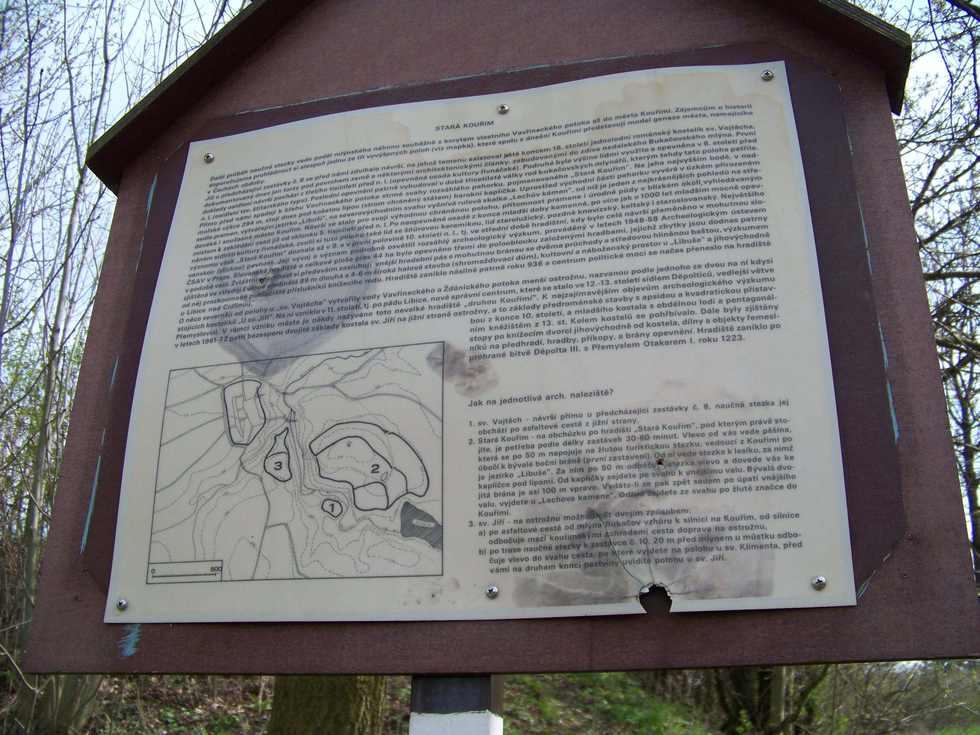 Kouřim, Kolín District, Central Bohemian Region, the Czech Republic. An information board of the educational trail.